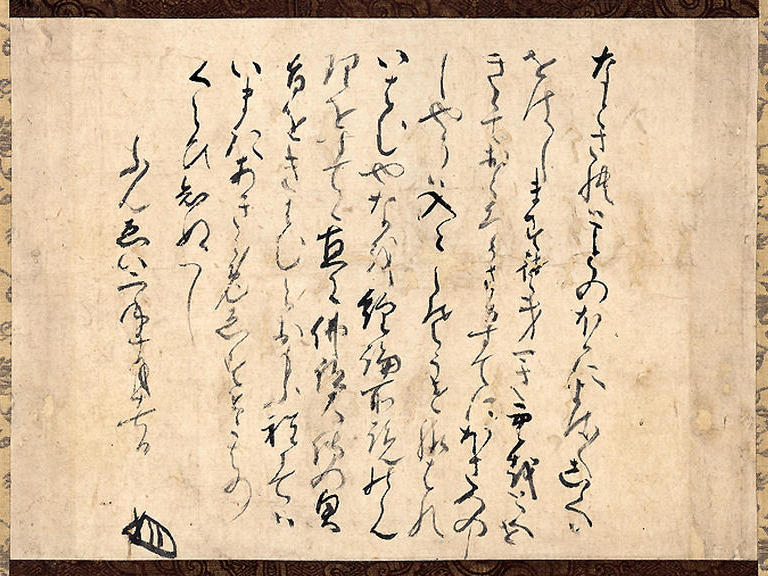 Mugai Nyodai's Calligraphy